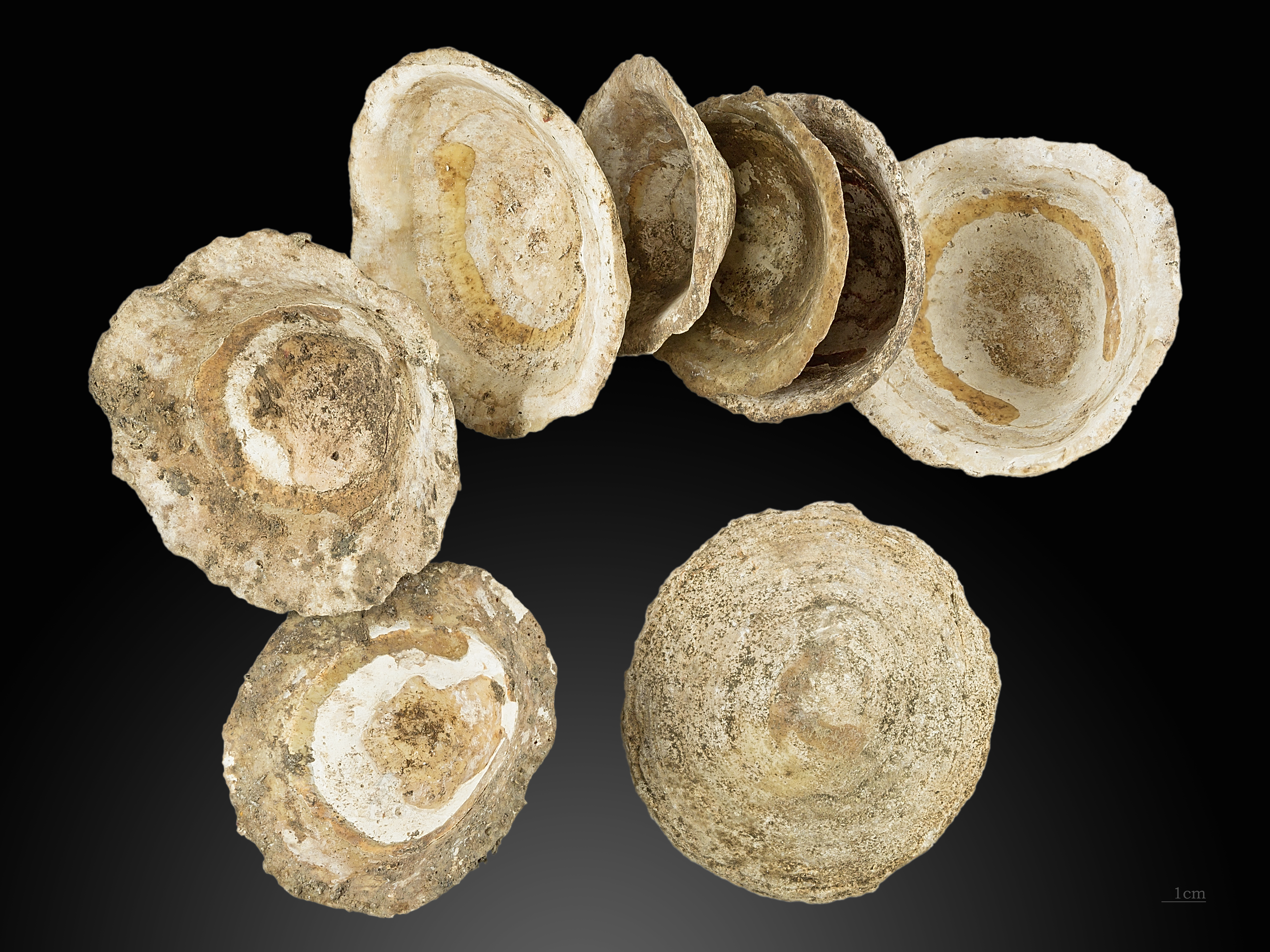 Remains of a meal. Common limpet from Cantabrian Lower Magdalenian layer (15 000 before present) of the Altamira cave. Excavations Edouard Harlé 1881.